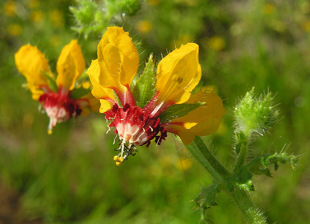 A tricolor nettle known as Ortiga Brava. In context at